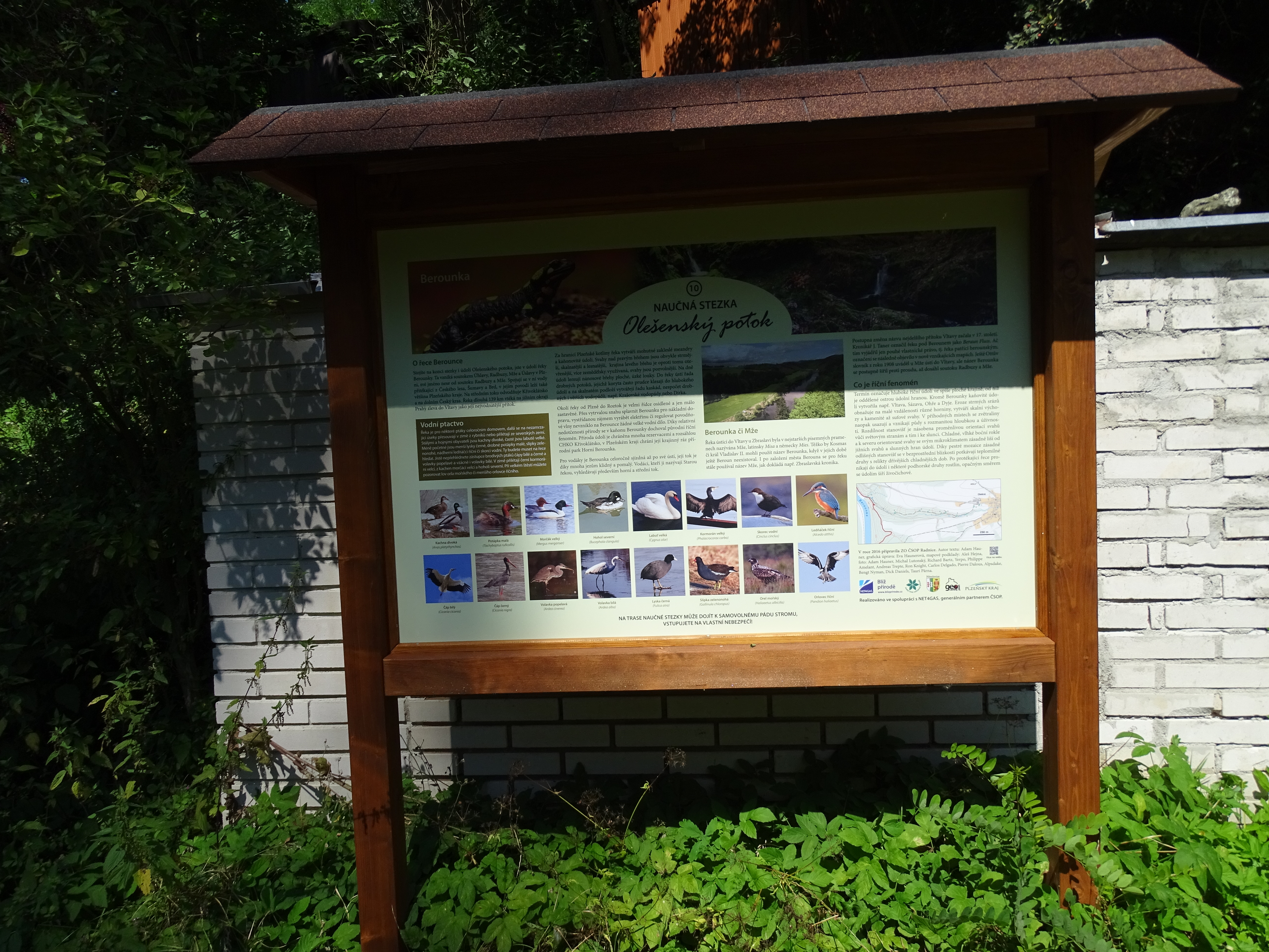 Němčovice-Olešná, Rokycany District, Plzeň Region, Czechia. Olešenský potok educational trail.